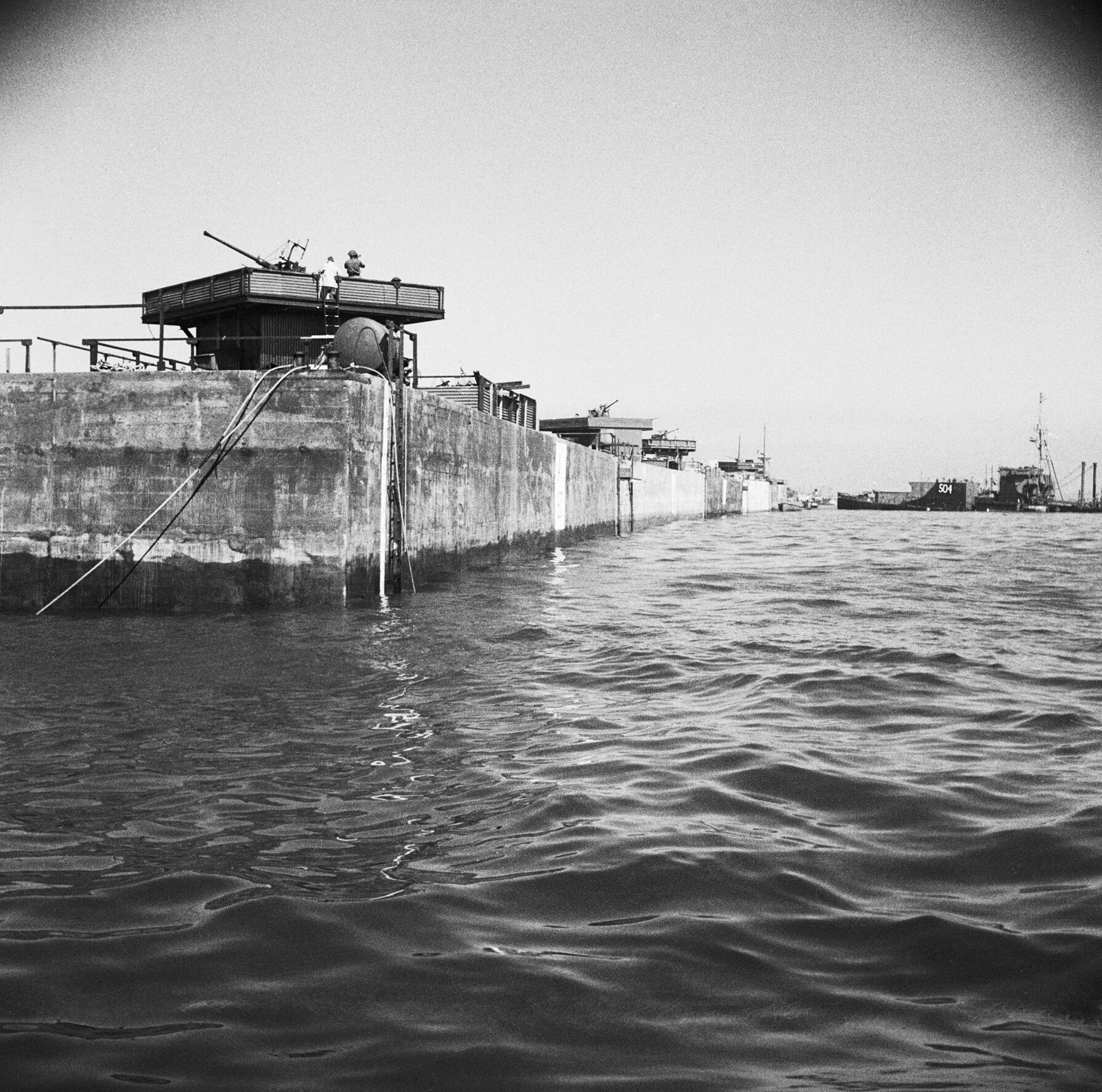 A line of Phoenix caisson units, part of the 'Mulberry' artificial harbour at Arromanches, 12 June 1944. A line of Phoenix units assembled to form a breakwater at Arromanches.